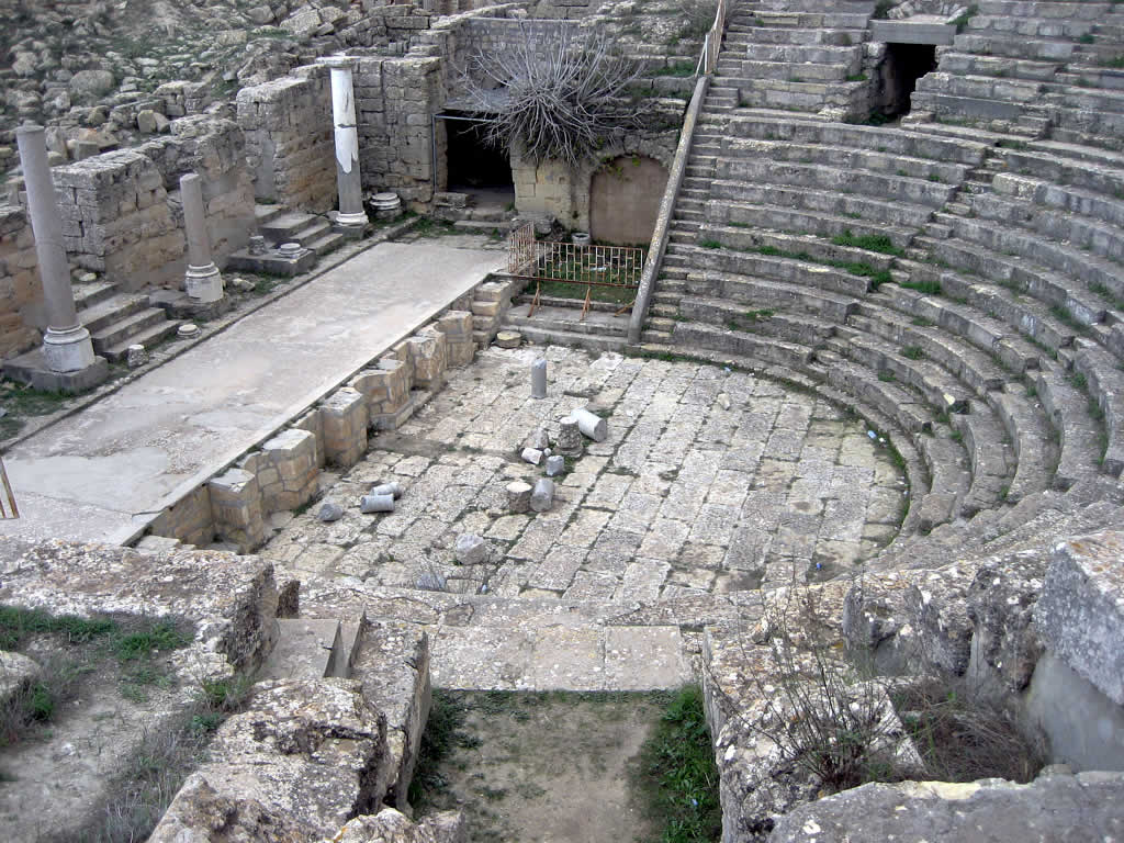 An ancient theater or odeon at Cyrene, east of Benghazi.